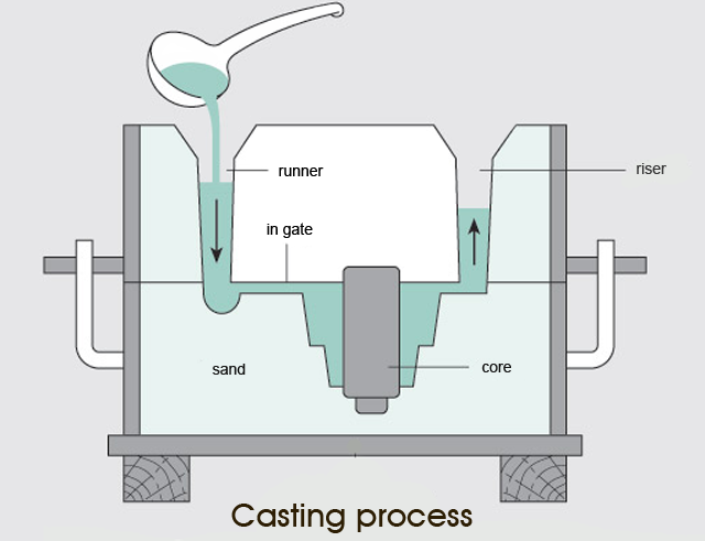 Schematic diagram of casting process